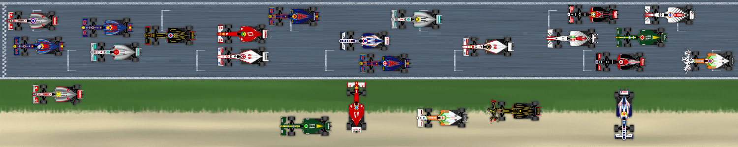 Race result of the 2011 Canadian Grand Prix in Montreal